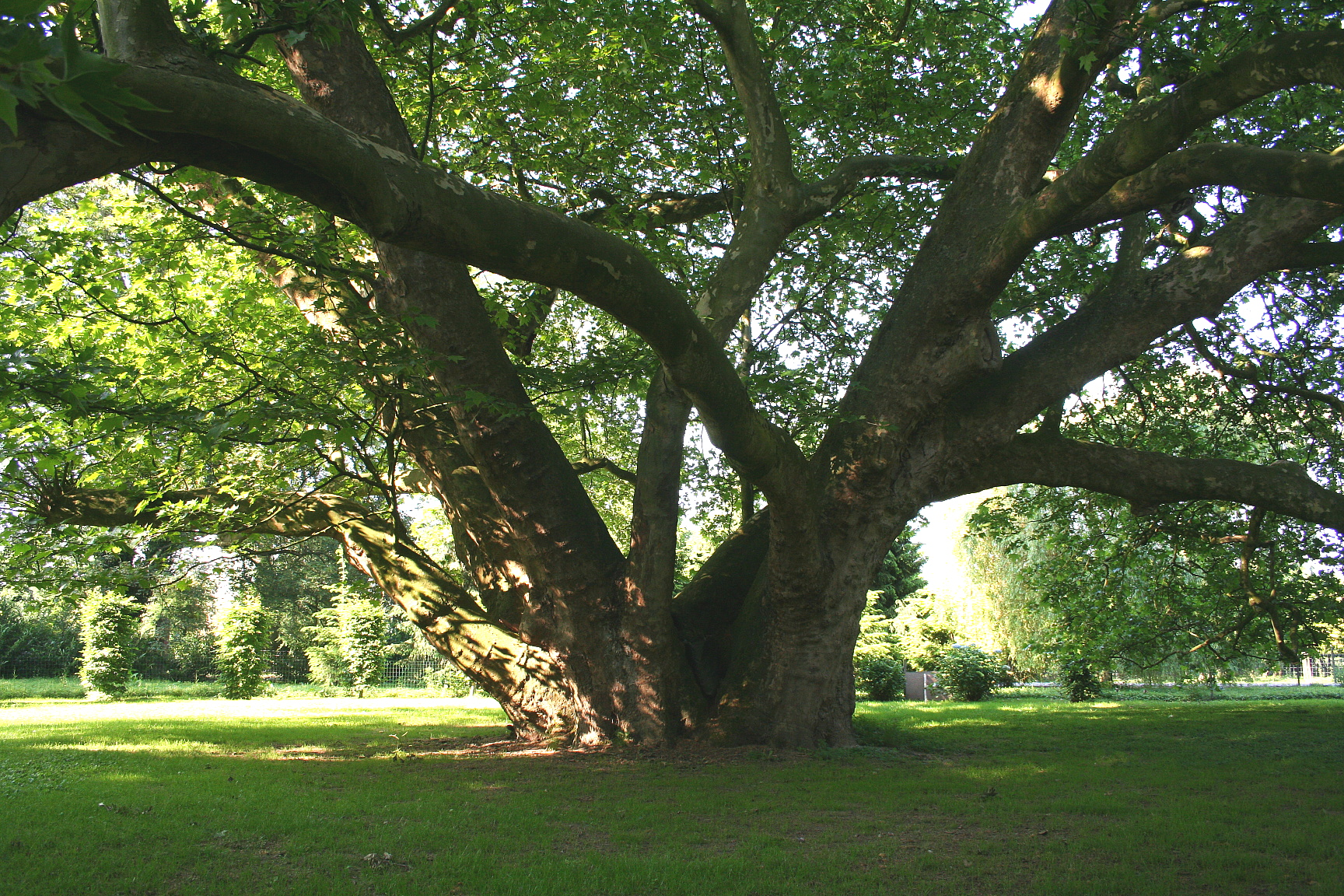 London Plane.